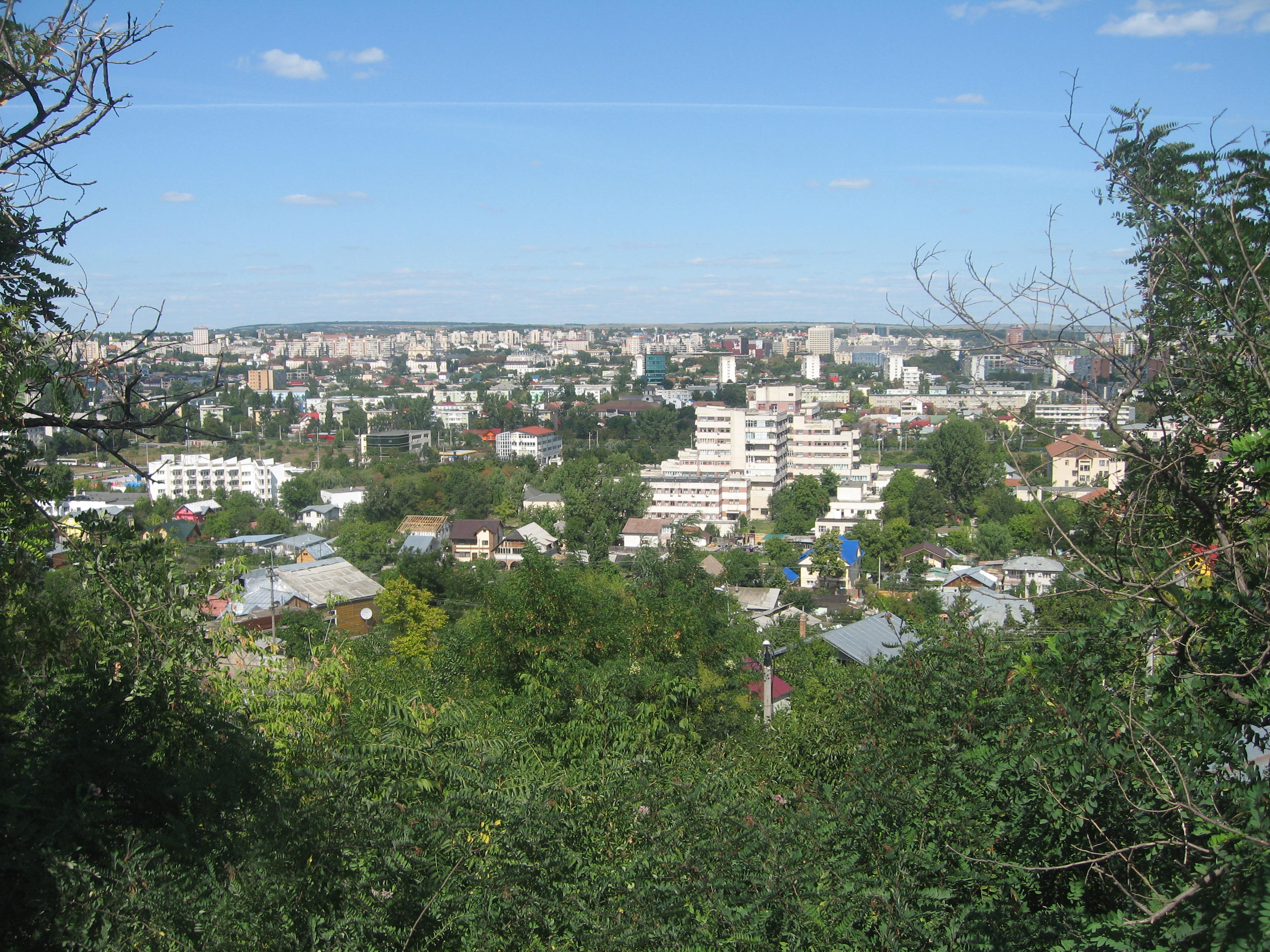 Manastirea Galata